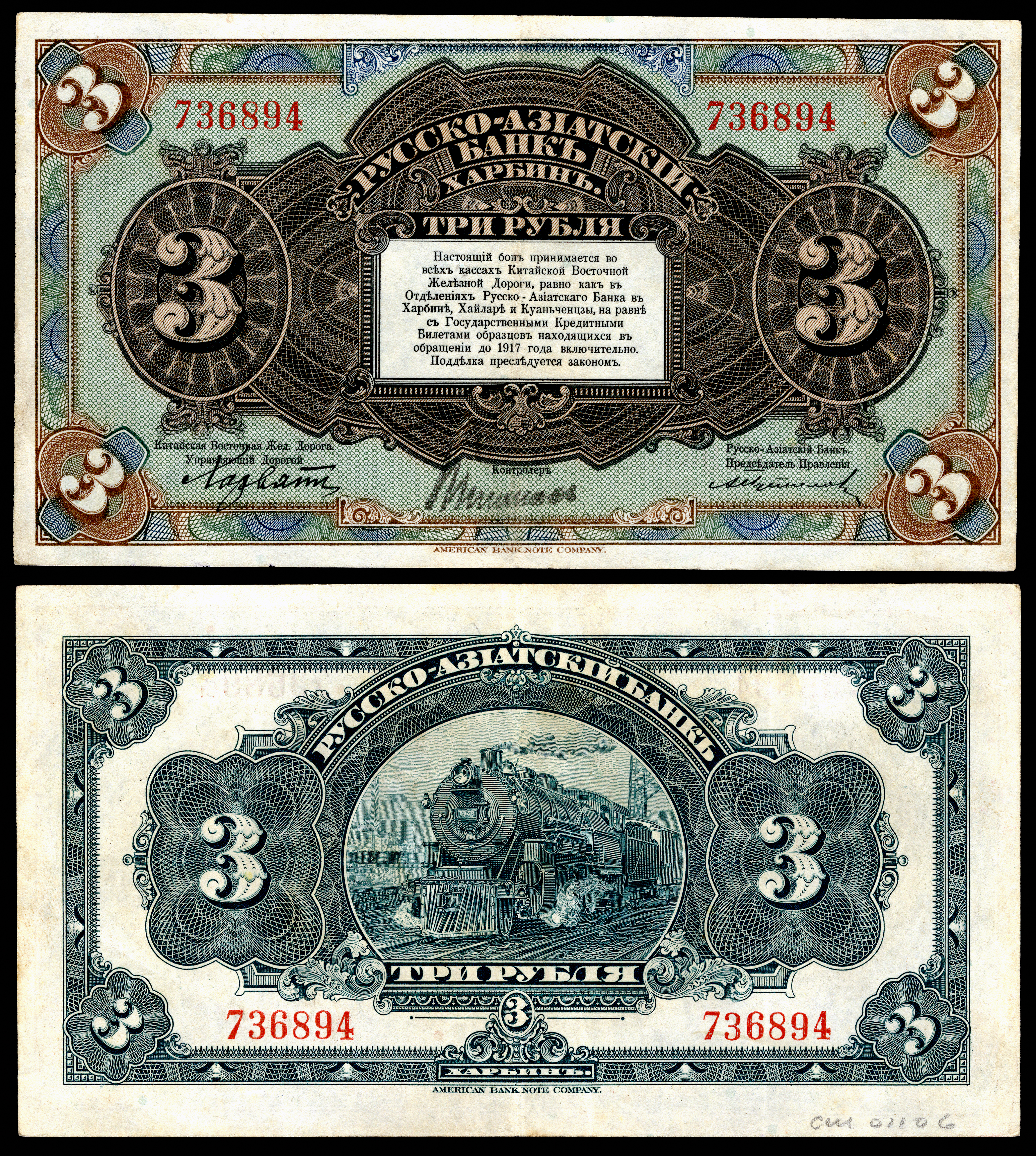 China/Russia, Russo-Asiatic Bank, 3 rubles (1917). Engraved by the American Bank Note Company. Issued by the bank's Harbin Branch, these notes were mainly used by the Chinese Eastern Railway.